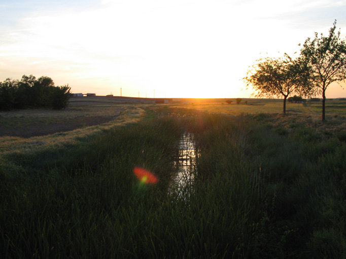 Amarguillo River in Camuñas (Spain)